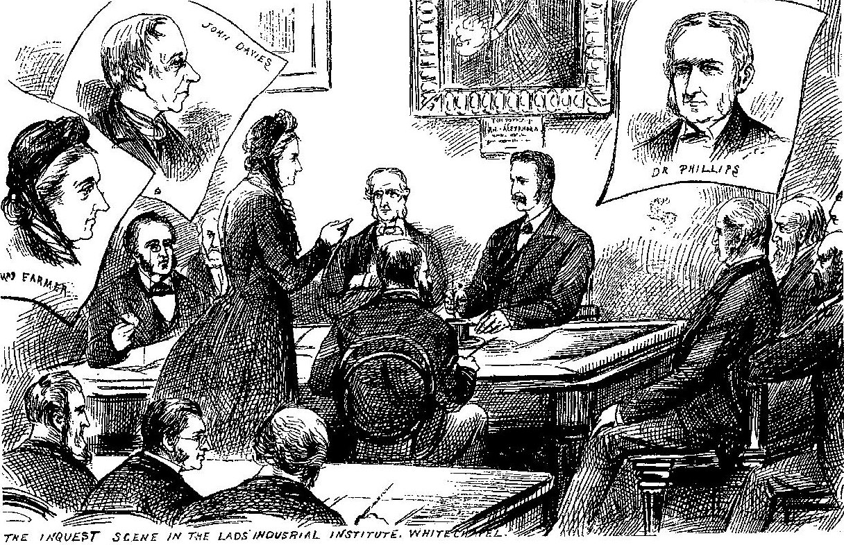 From 'The Pictorial News' 15 September 1888